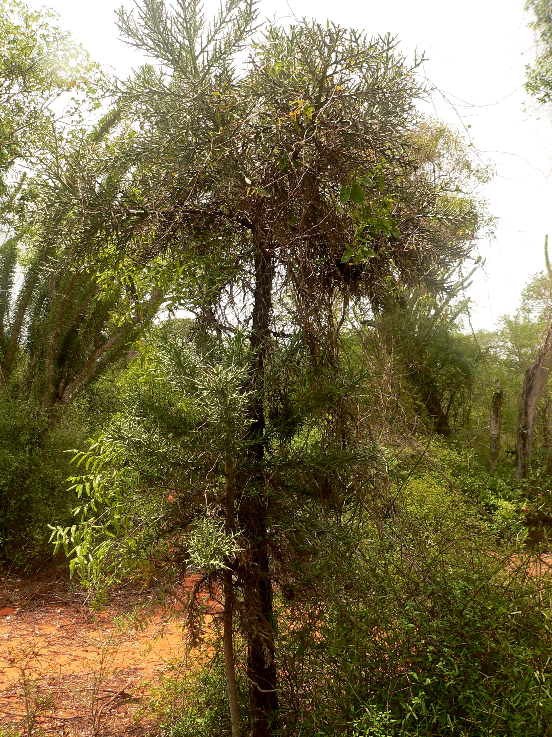 Euphorbia stenoclada (Euphorbiaceae), spiny forest at Mangily, western Madagascar